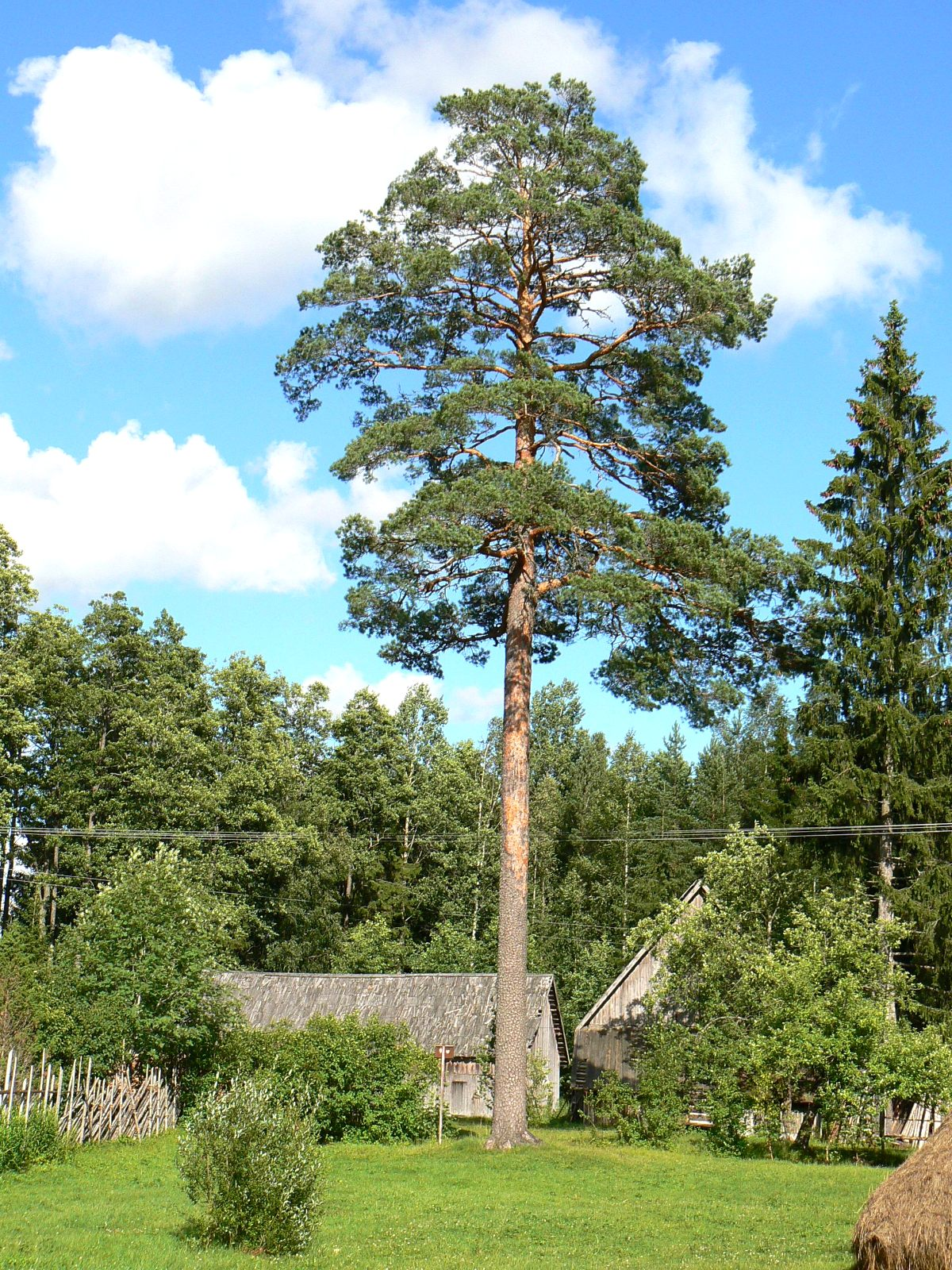 The Männiku pine in Estonia